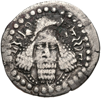 Coin of Papak, the father of Shahanshah Ardashir I.